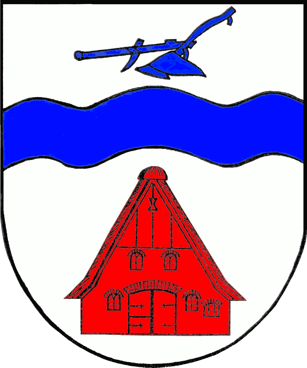 Coat of arms of the municipality Brokstedt in Schleswig-Holstein, Germany.